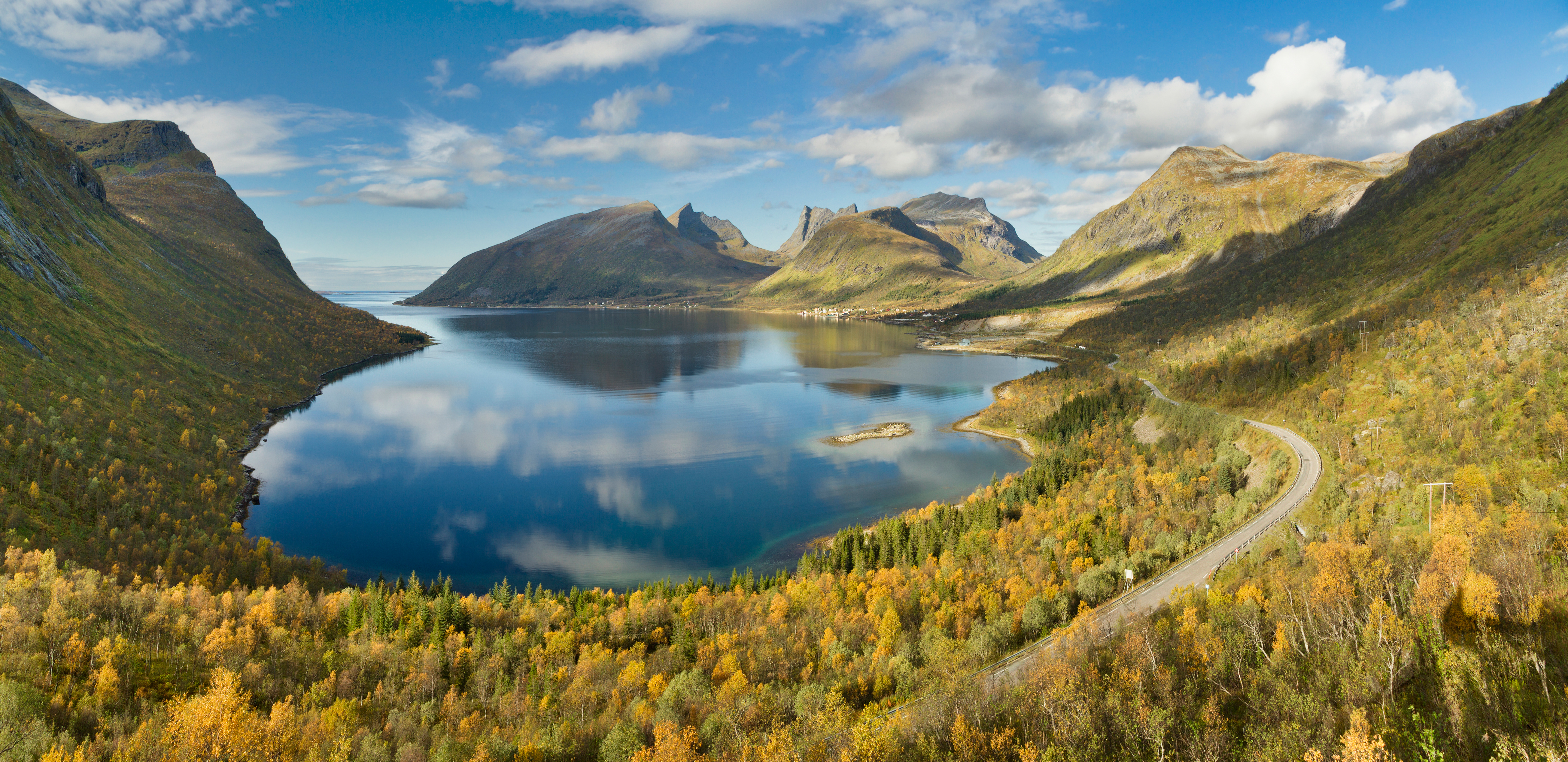 A wide view to Bergsbotn and Bergsfjorden from a viewpoint at the end of the fjord, Senja, Troms, Norway in 2015 September.